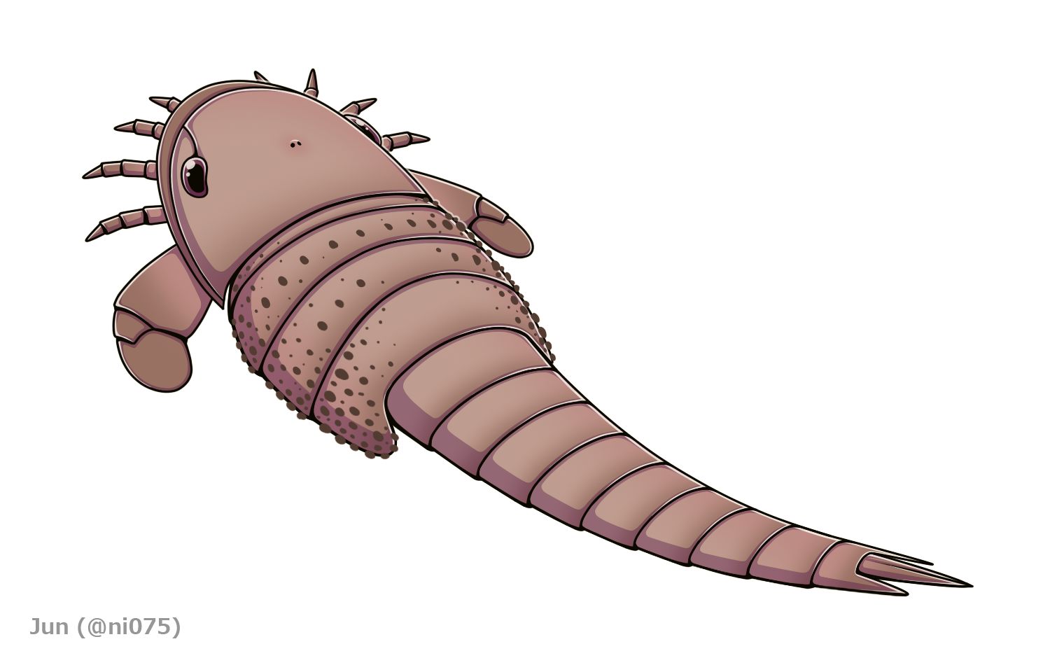 Reconstruction of Octoberaspis ushakovi, a devonian chasmataspidid. Details of the first 4 pediform appendage pairs are conjectural.